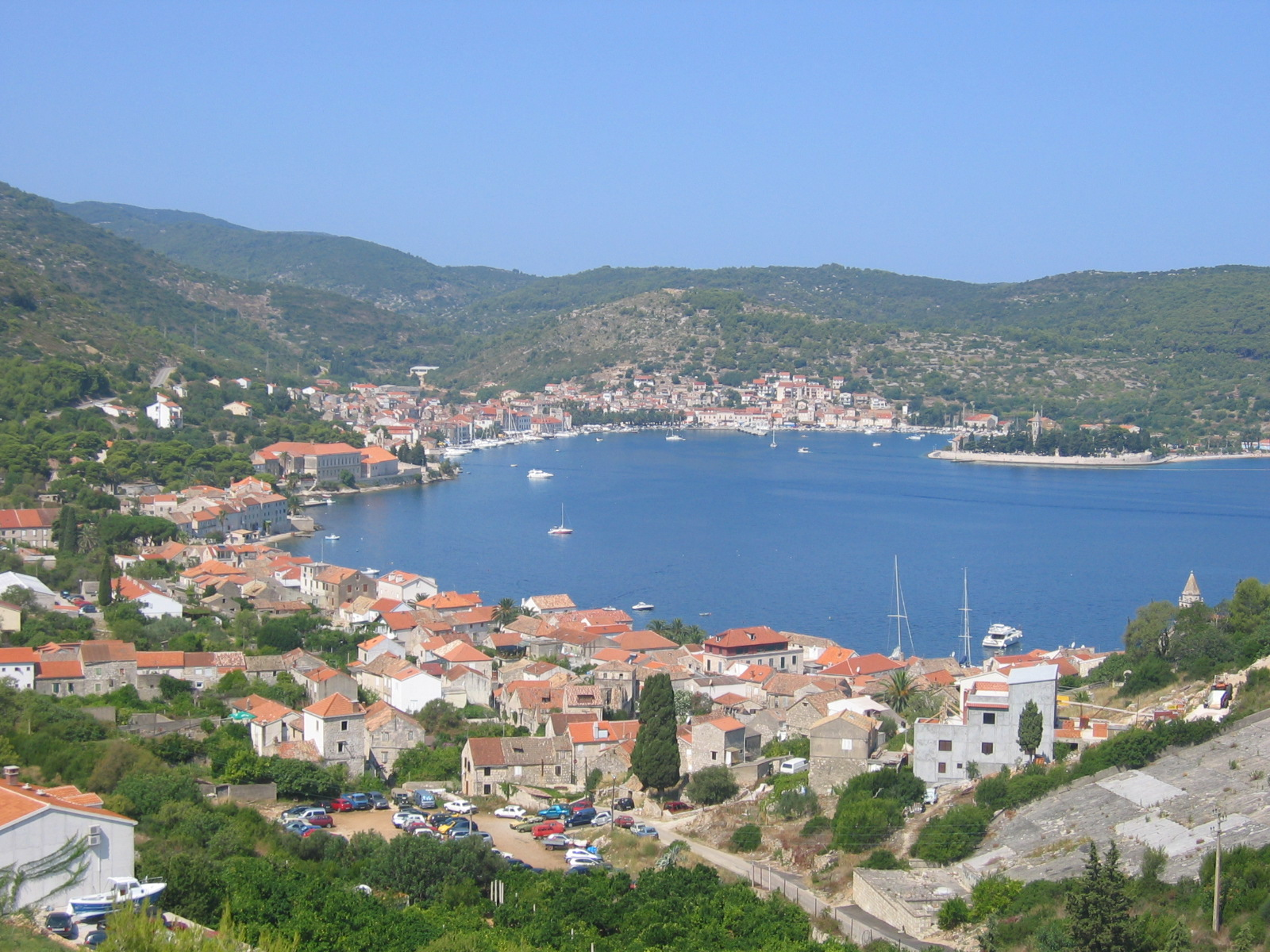 Vis Bay, Croatia